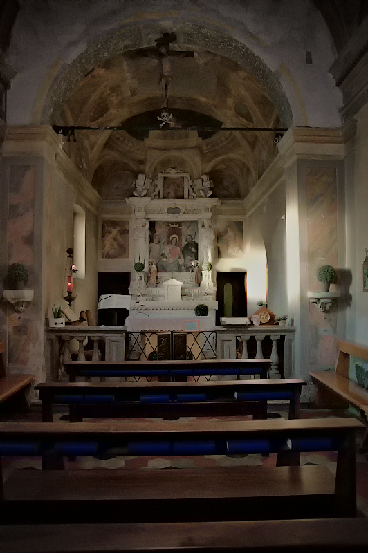 Internal view of the sanctuary of the Madonna del Pilastrello